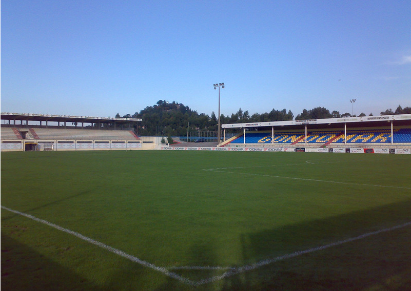 Gondomar SC